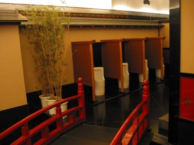 Public Toilet in Tokio Meguro Gajoen Hotel